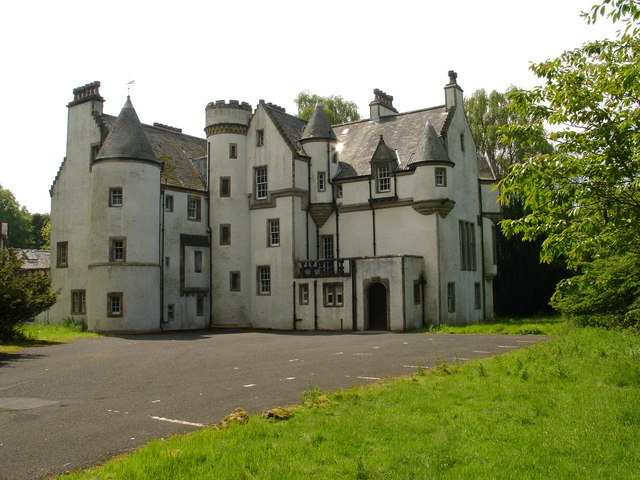 Dargavel House This delightful mansion is owned by BAE Systems, and formed part of the former Royal Ordnance Factory facility at Bishopton which effectively took over and adapted all the buildings on site as part of the business of manufacturing armament propellants. BAE Systems now operate this site and are preparing it for a gradual handover to civilian use. The house is in relatively good repair, and will eventually be incorporated into local community use. With thanks to BAE Site Remediation for access.